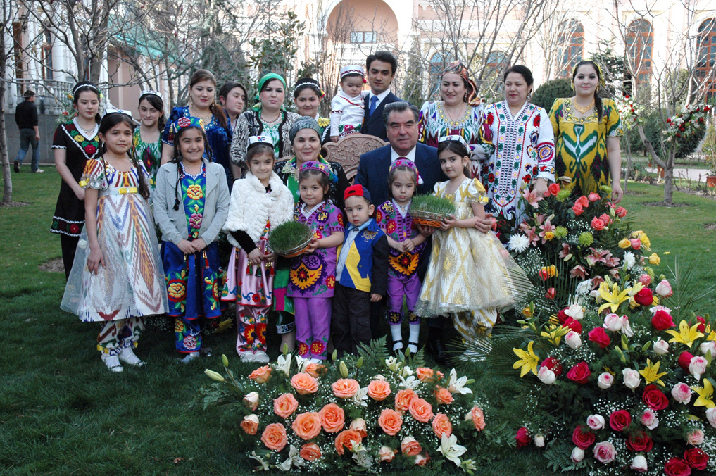 Emomali Rahmon with wife, Azizmo Asadullayeva, and family